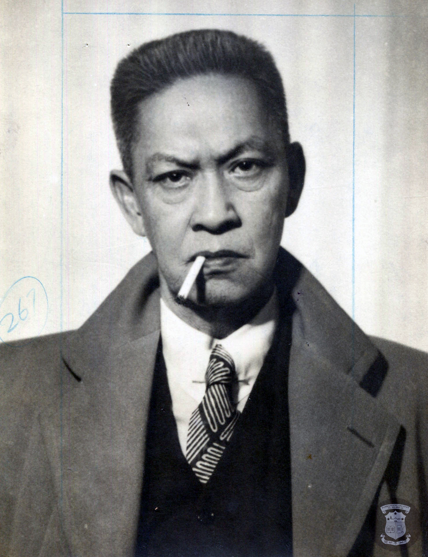 biography of Senator Vicente Sotto